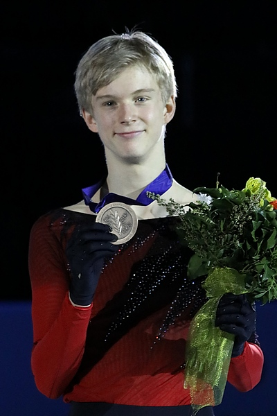 Daniel Grassl at the Junior World Championships 2019 - Awarding ceremony